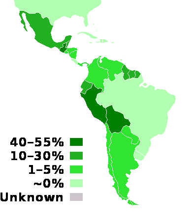 Map of pure Amerindian population